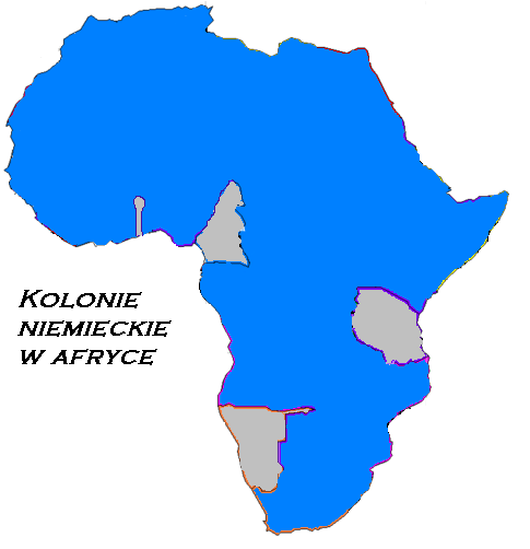 German colonies in Africa